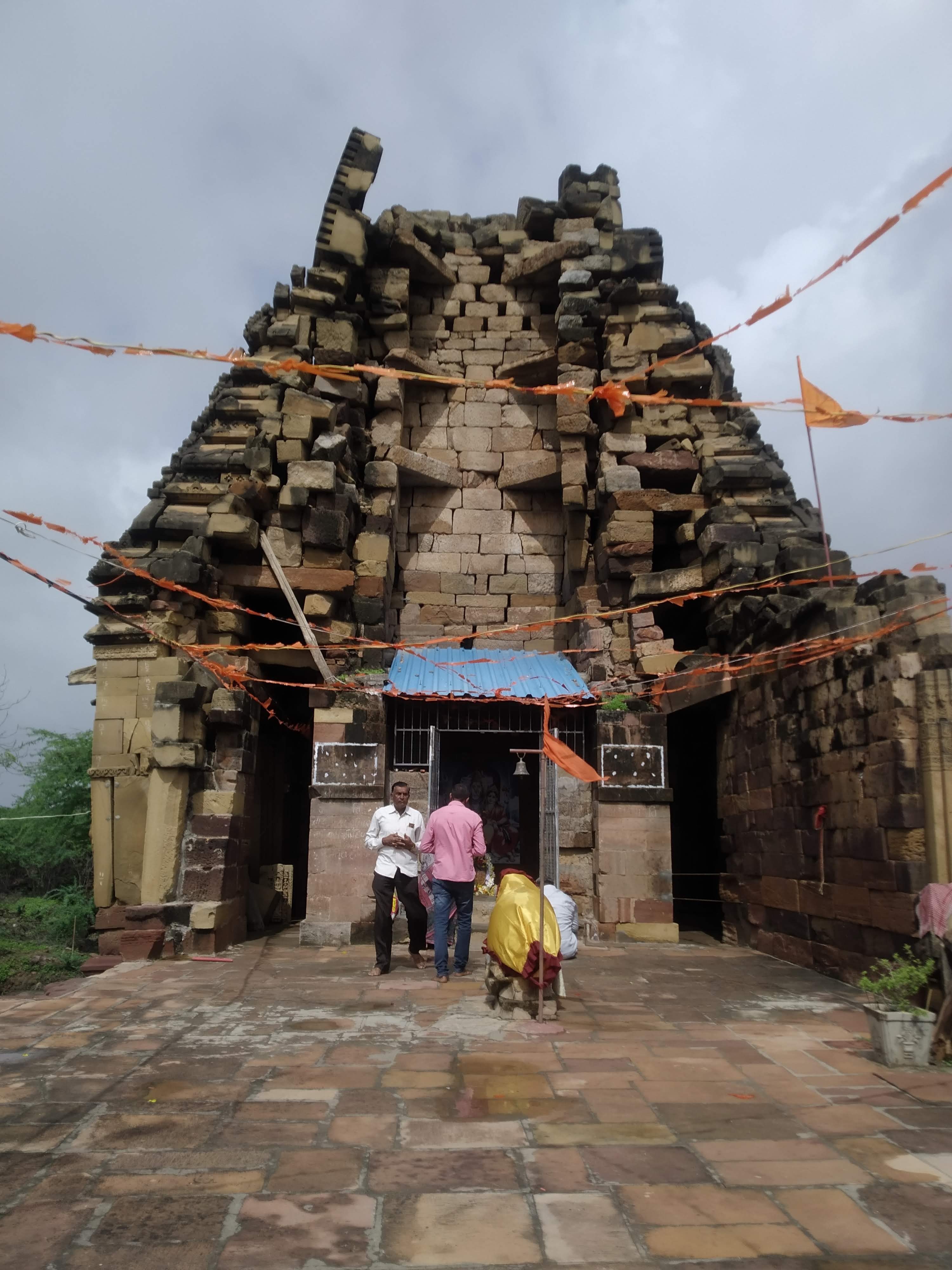 Lakheshwar Mahadev